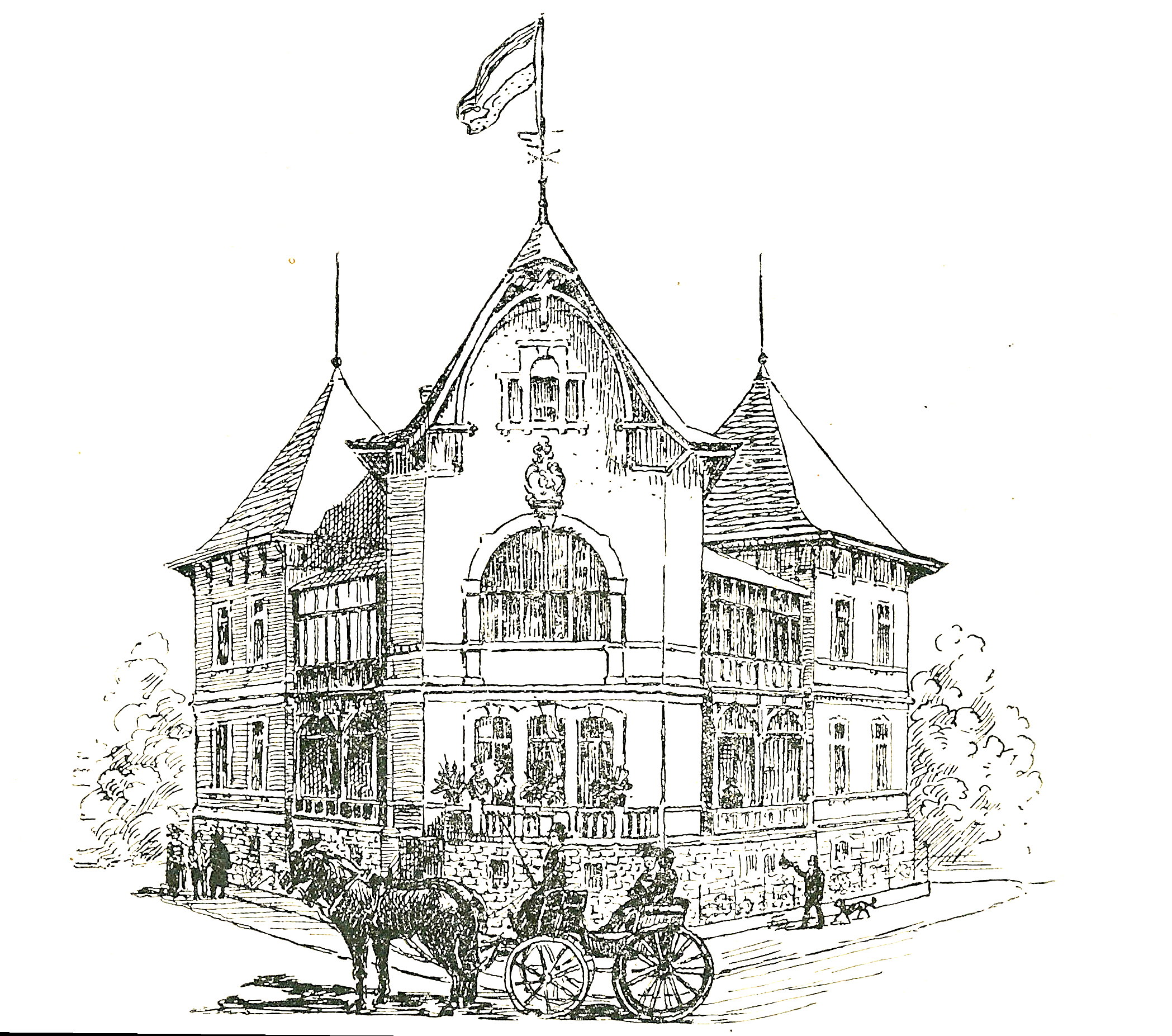 Former house of student fraternity "Corps Nassovia Würzburg" in Würzburg/Germany